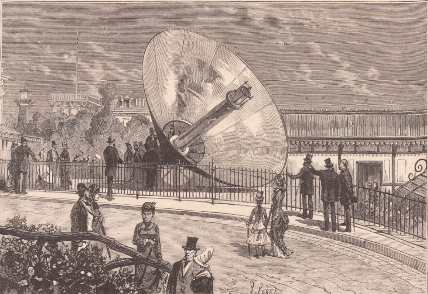 c/1878